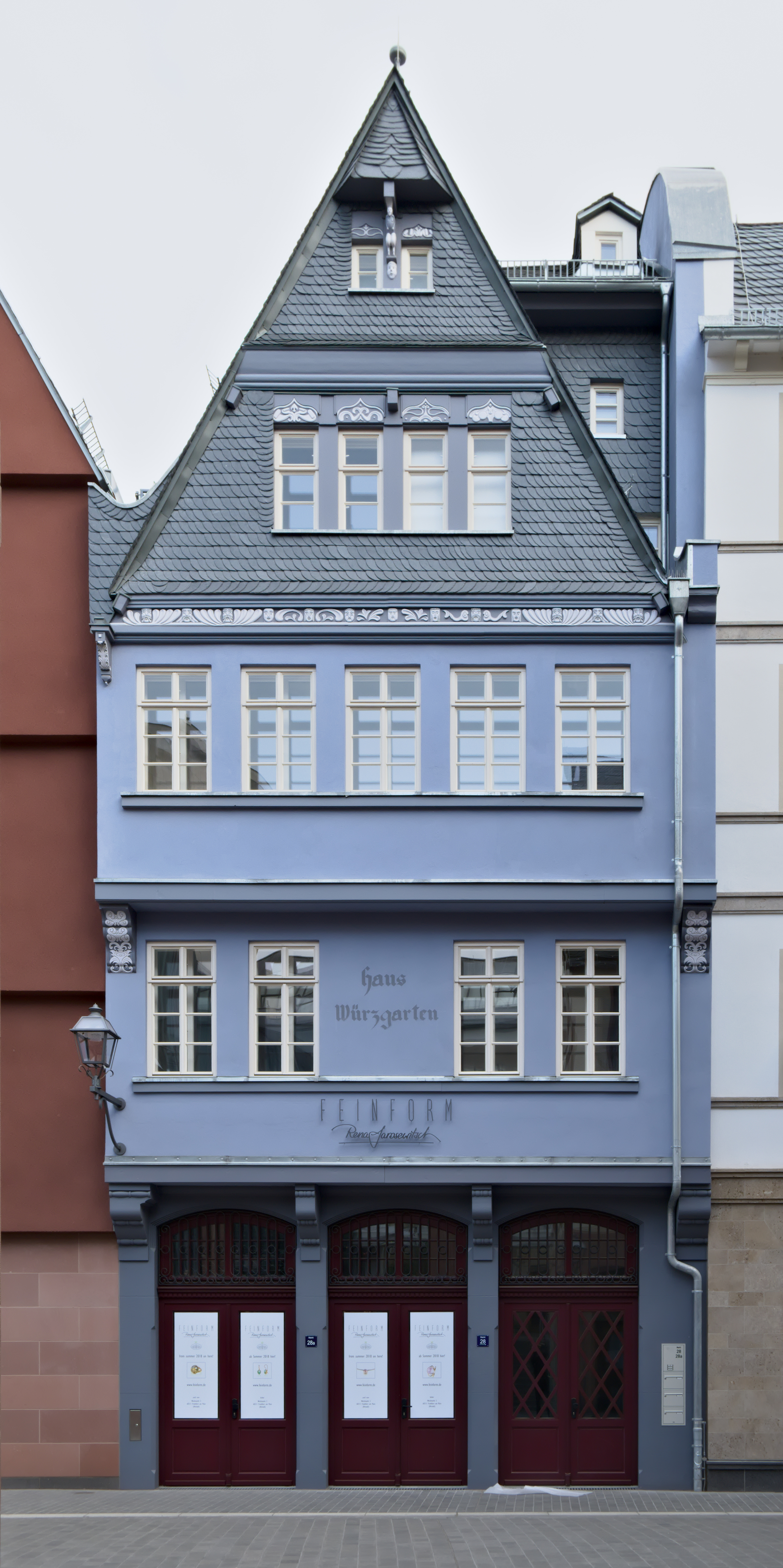 The reconstructed historic building "Haus Würzgarten" in Frankfurt am Main, Germany. The existance of the original house, destroyed in World War II, was first documented in the year 1292.